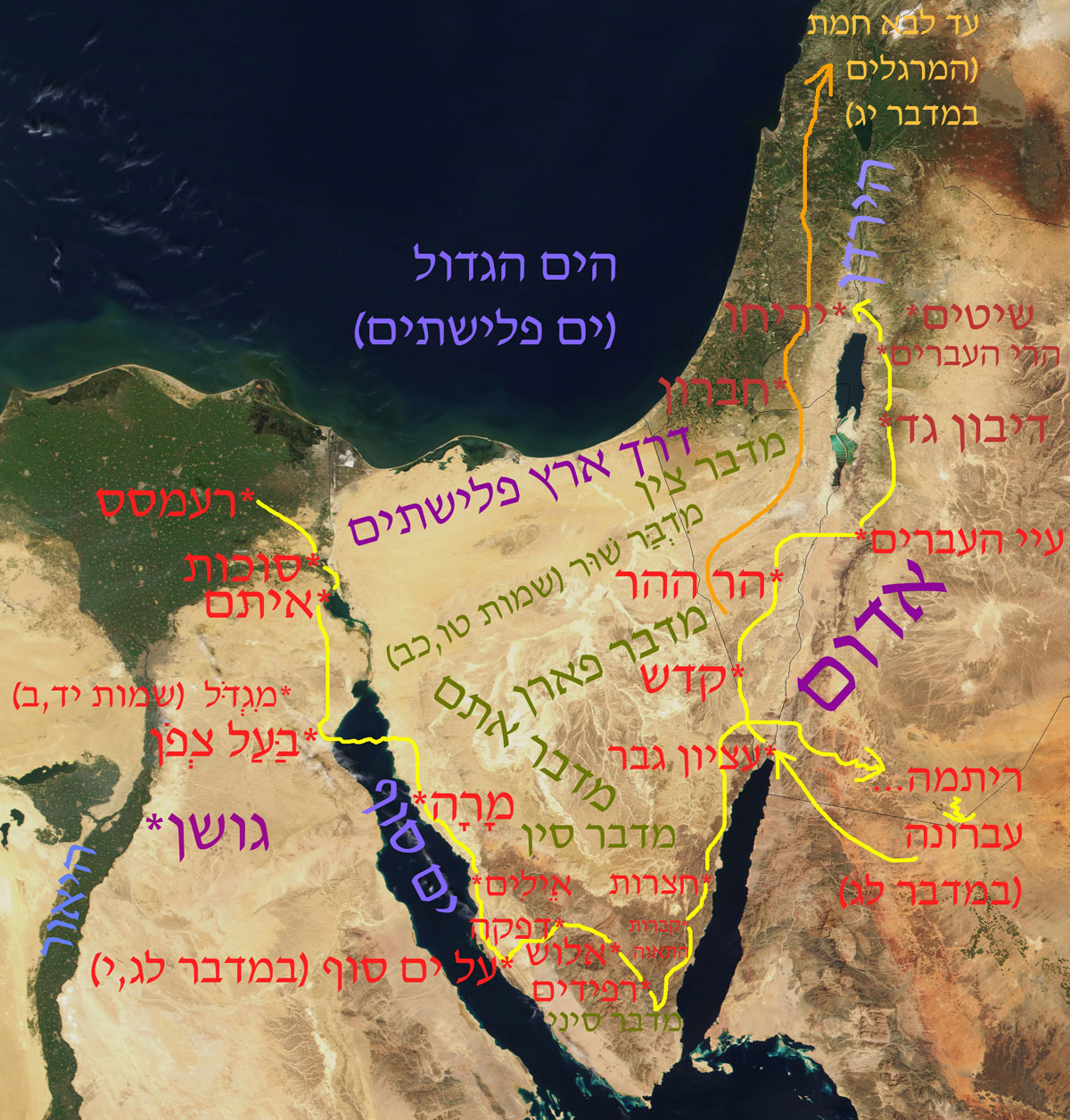 This map shows one of the supposed roads of the Jewish exodus.